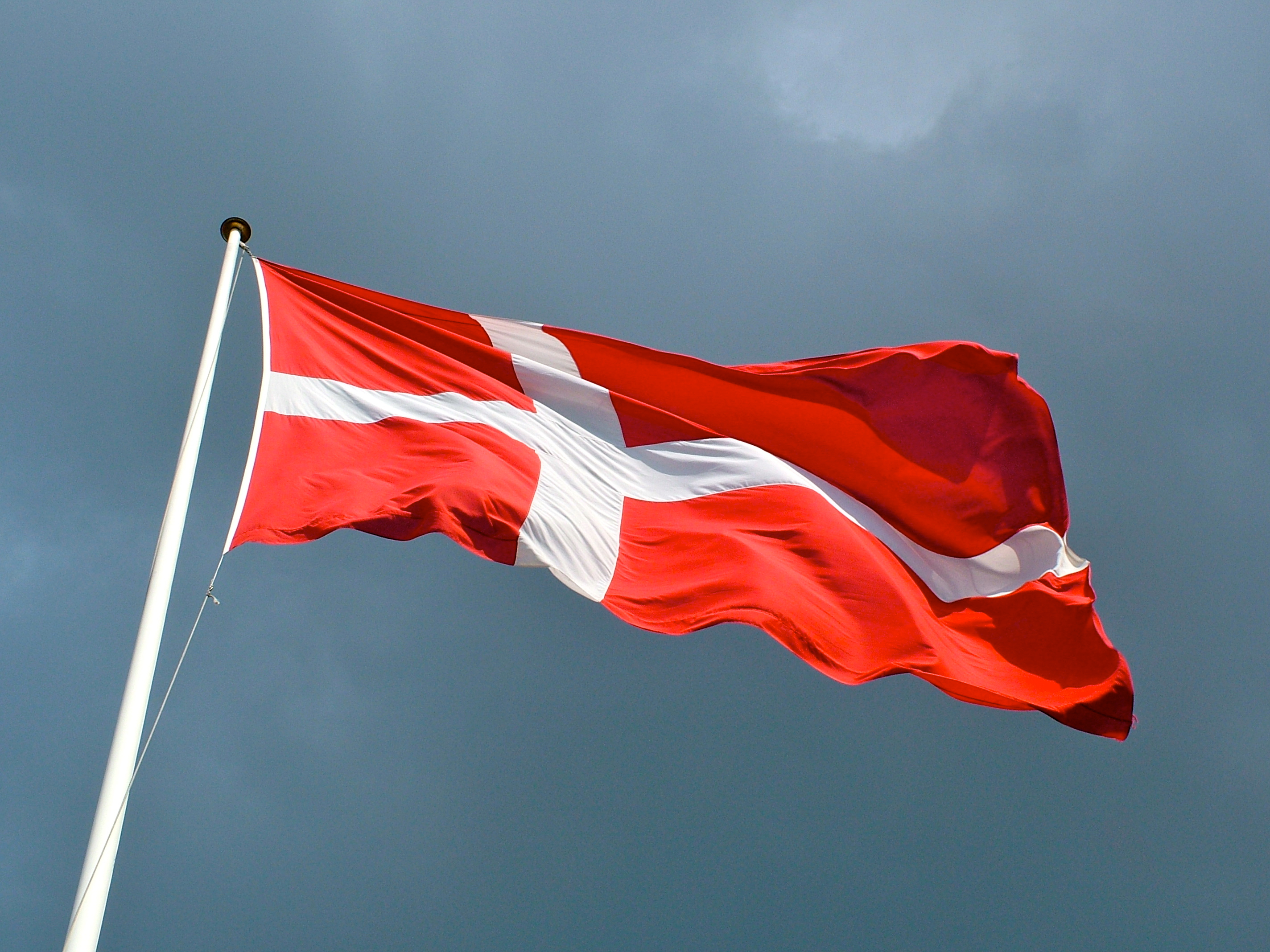 The Danish flag - Dannebrog Photographed by: Per Palmkvist Knudsen